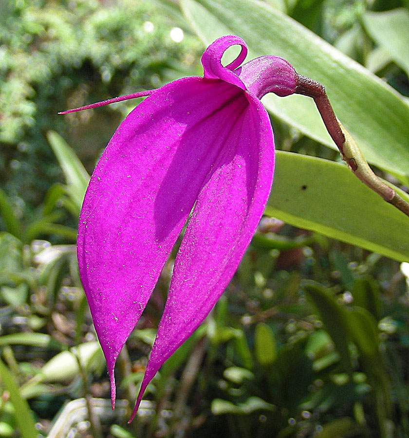 A purple form of the Scarlet Masdevallia near the town of Ibague, Colombia. Found in the highlands from Colombia to northern Peru. In context at